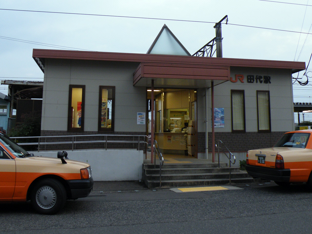 JRKyushu Tashiro Station